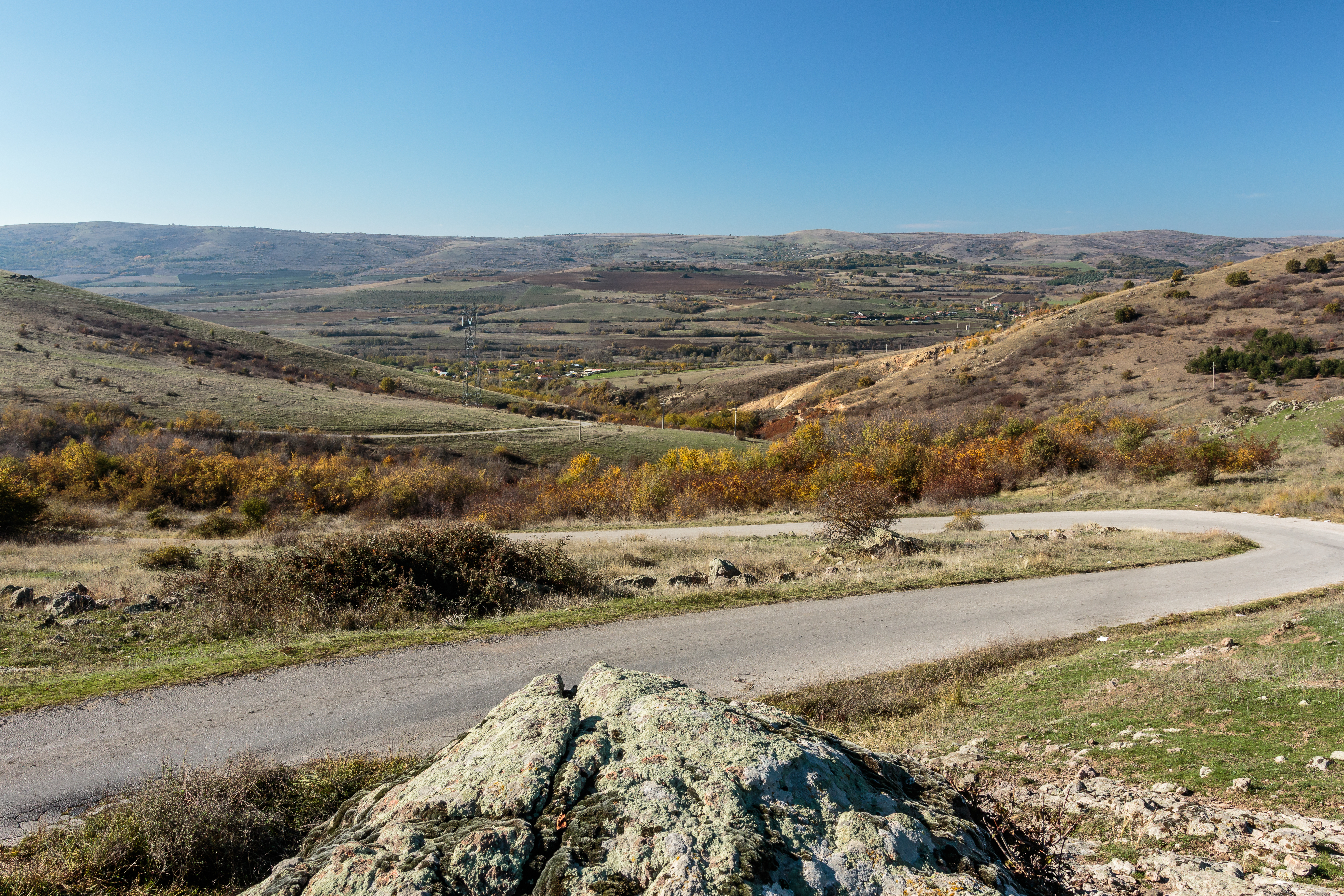 Landscape in the Zletovo-Probištip Region of Macedonia with the villages of Zarapinci (left), Puzderci (right) and Kukovo (in the background)